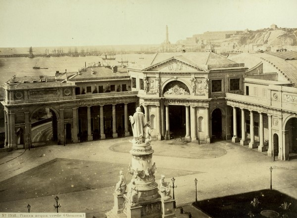 Giorgio Sommer (1834-1914), "Piazza Acqua Verde square. (Genoa)", Italy. Catalogue # 1958.